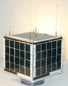 AMSAT ECHO (AO-51) Amateur Radio Satellite